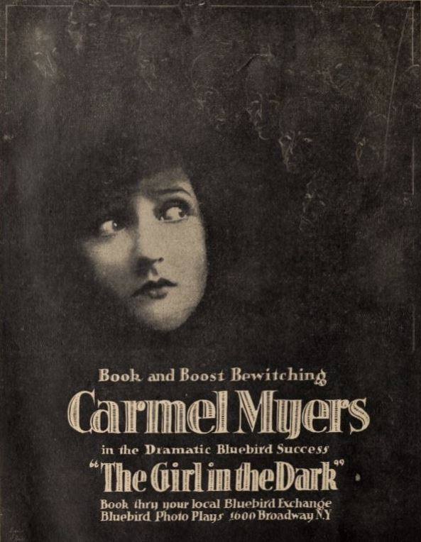 Advertisement for the American mystery film The Girl in the Dark (1918) with Carmel Myers, on page 28 of the March 9, 1918 The Moving Picture Weekly.